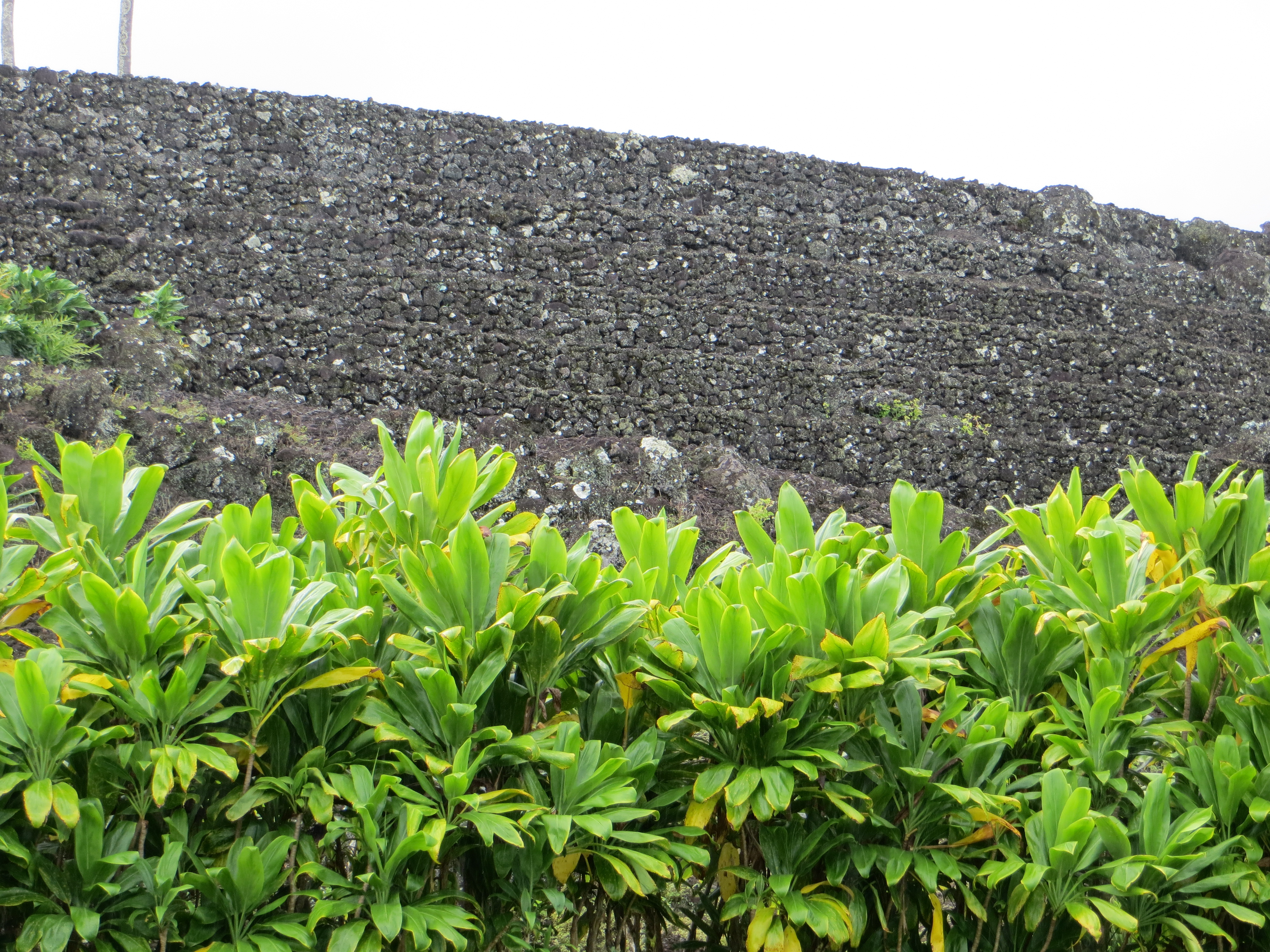 Closer view of Piʻilanihale Heiau tiered wall, Kahanu Garden, near Hana, Maui